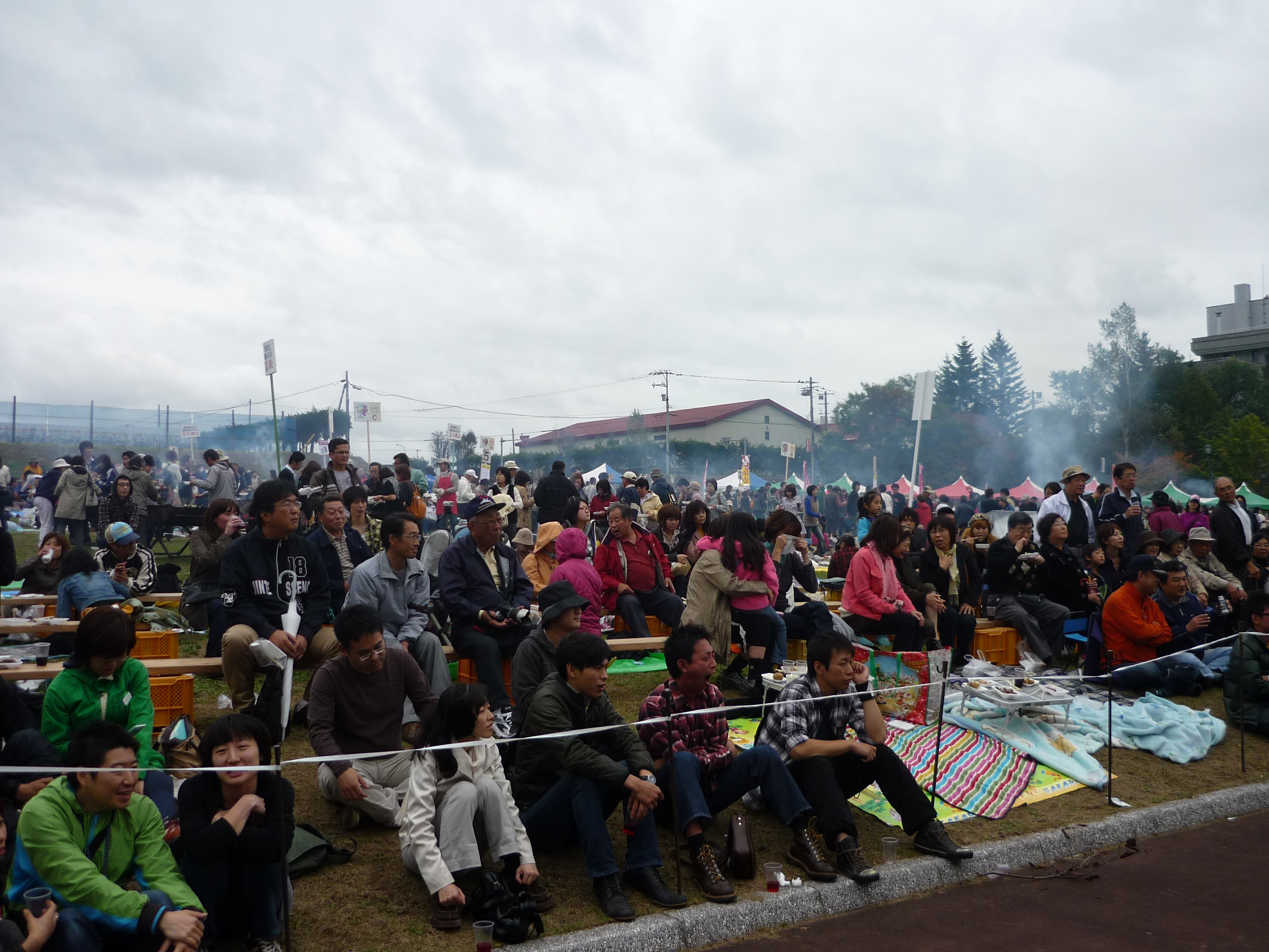 People in Ikeda during a festival